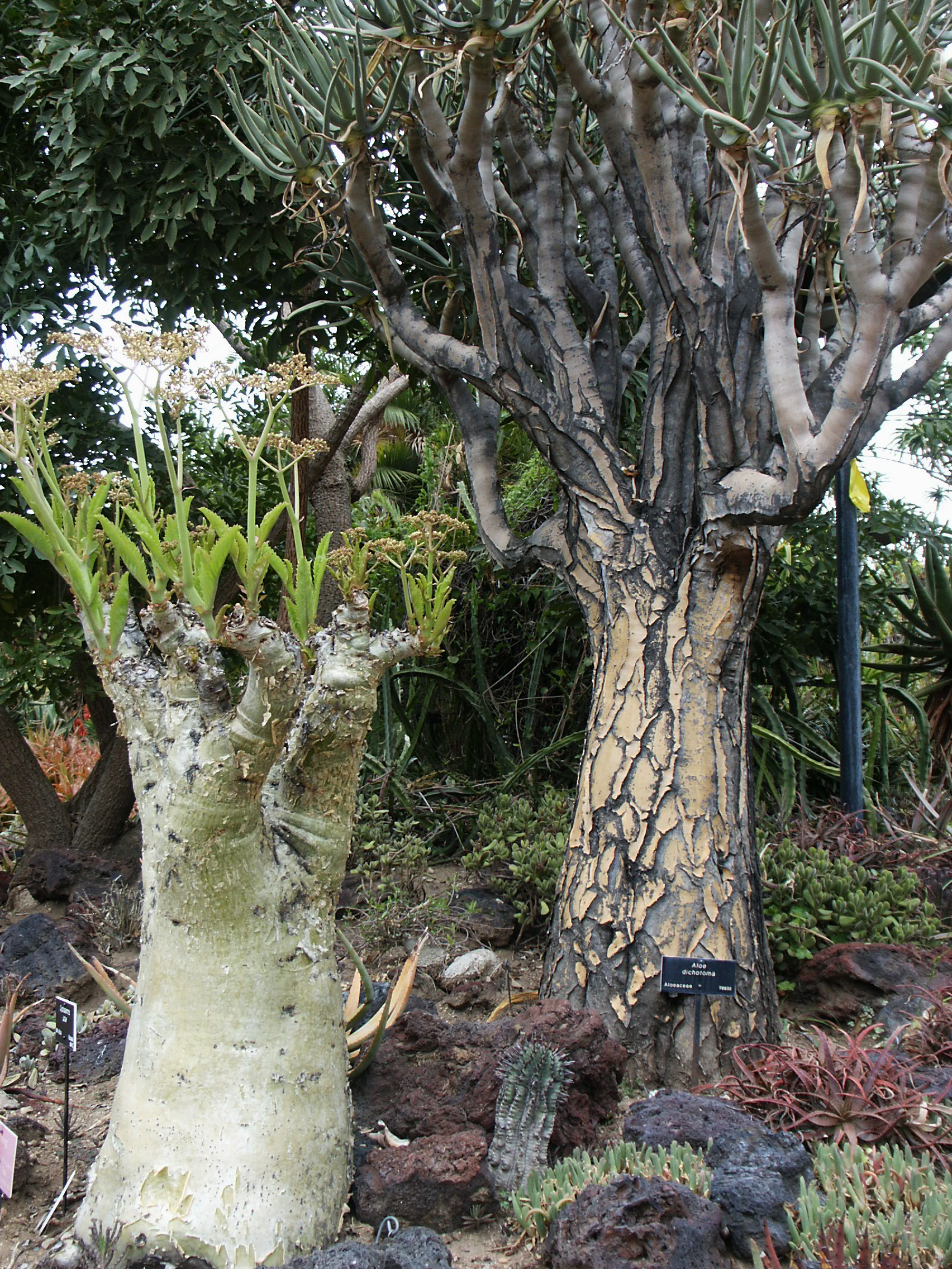 Aloe dichotoma & Cyphostemma juttae, Huntington Library Desert Garden, May 2009